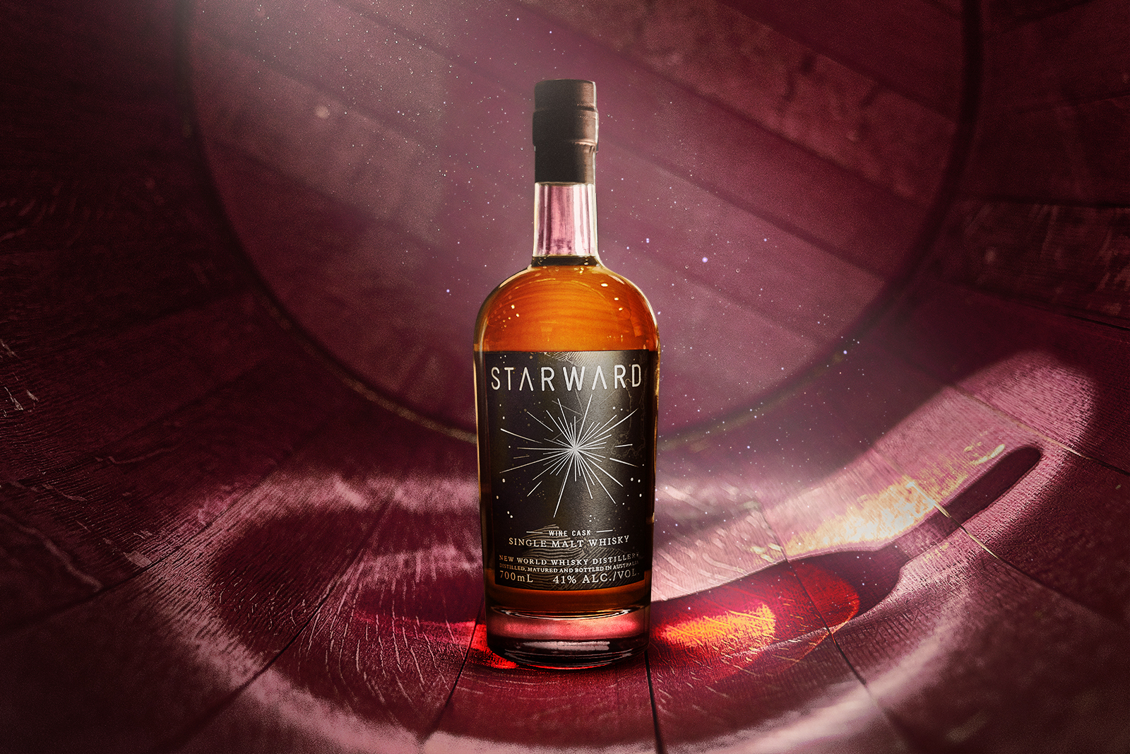 Starward's Wine Cask whisky, photographed by Australia's leading alcohol creative, Jack Hawkins.